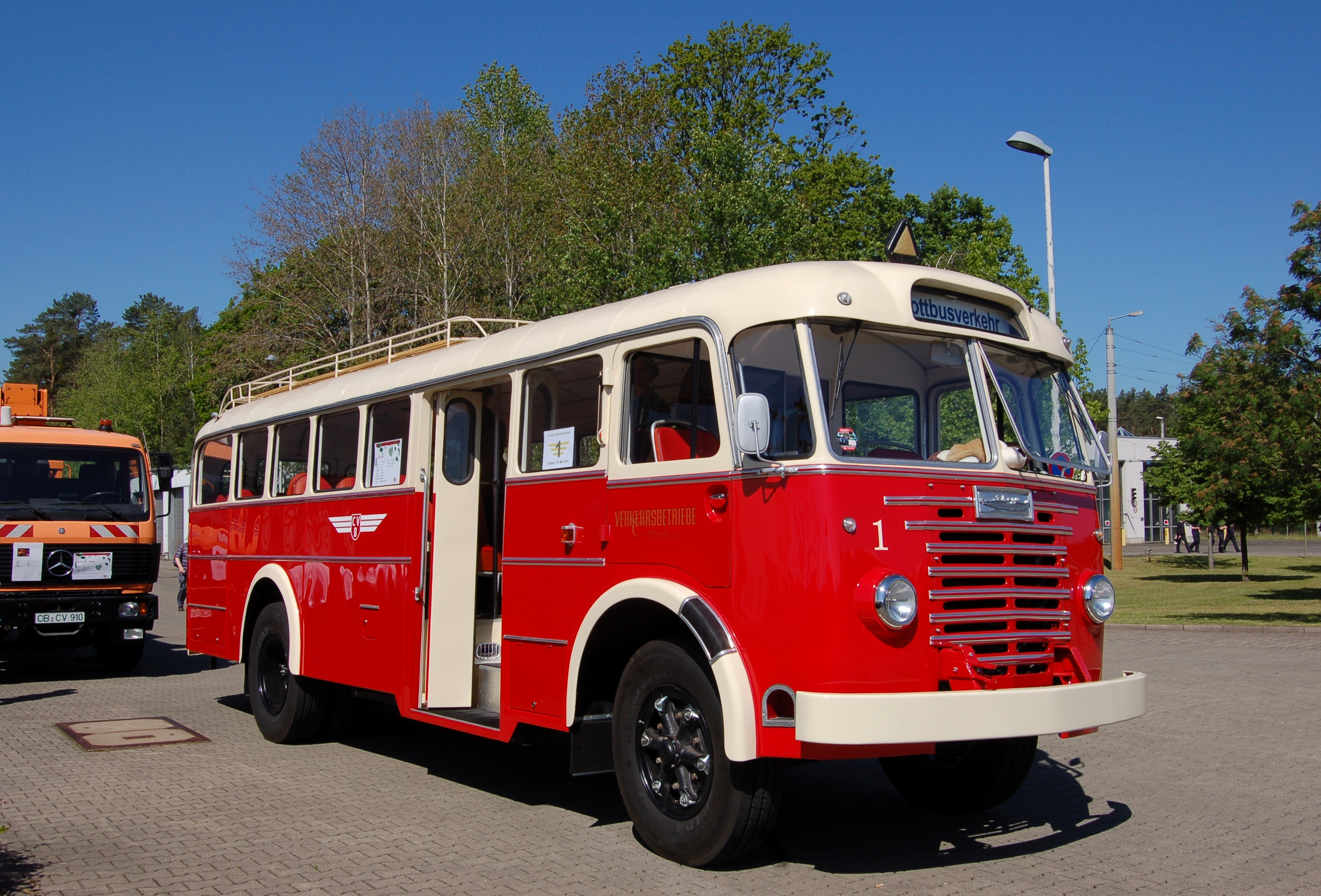 a restored urban bus type Ikarus 601 used by German traffic company Cottbusverkehr